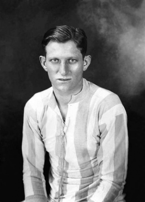 Domingo Tarasconi with the Argentina national team.